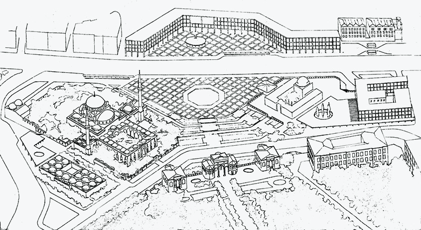 Sedad Hakkı Eldem Beyazıt Square Project